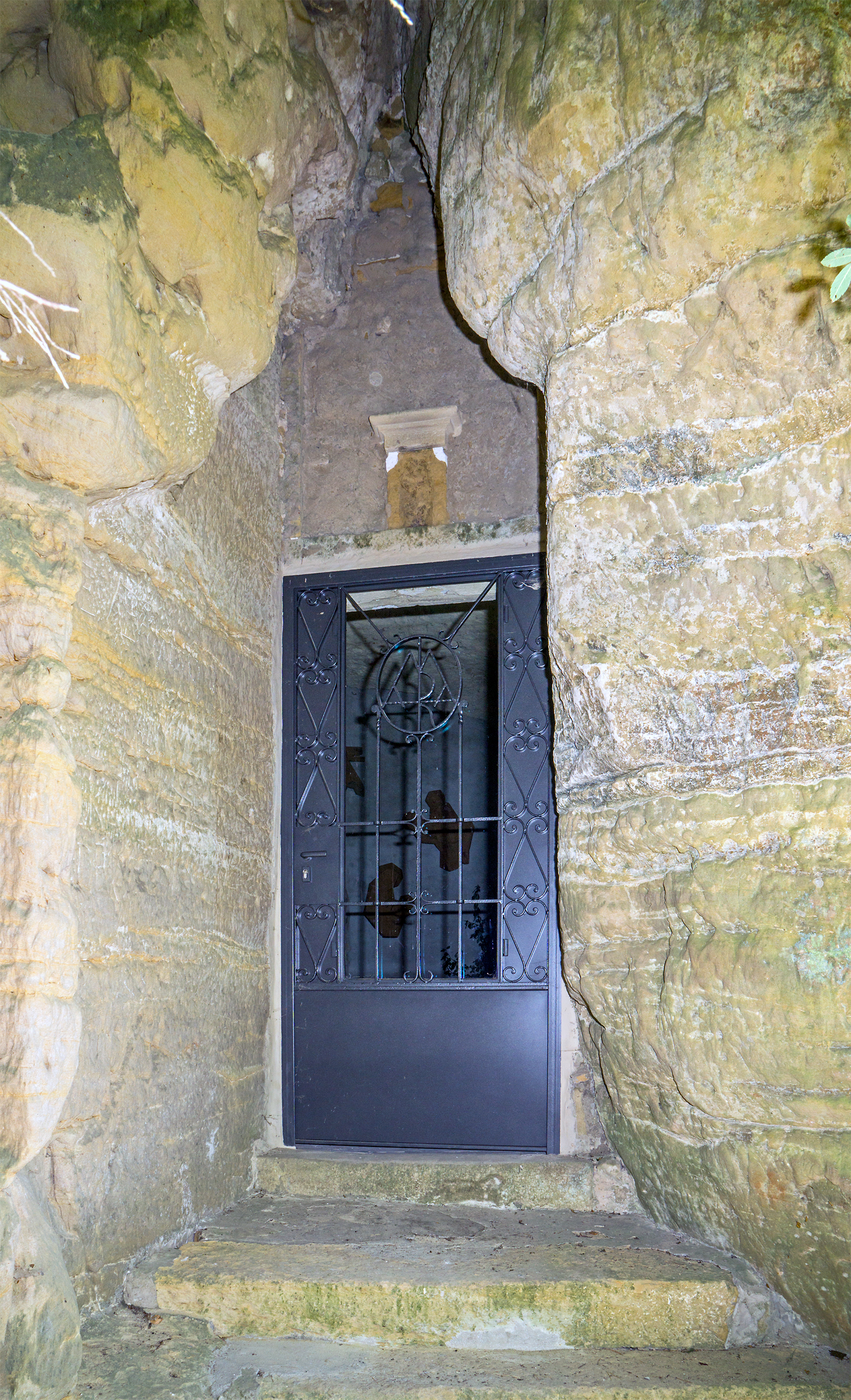 Entry of the chapel Fautelfiels